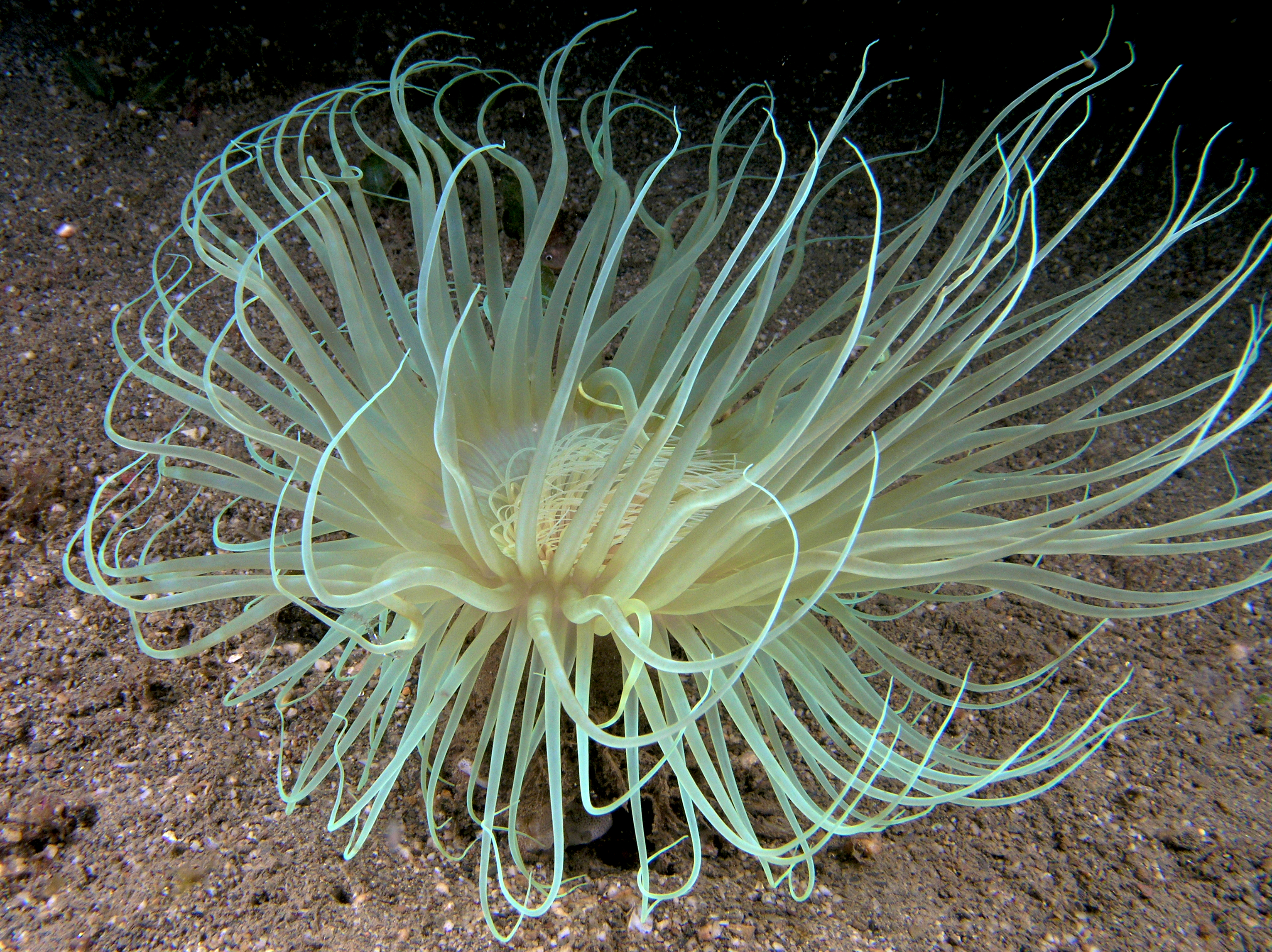 Ceranthidae (Irridescent tube anemone)